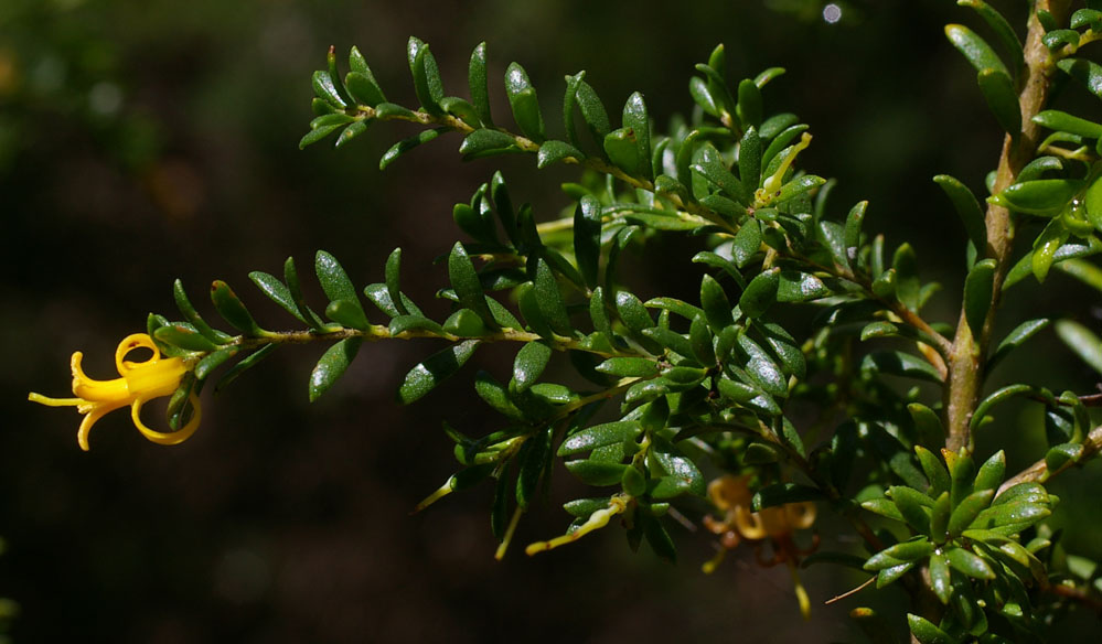 Persoonia terminalis ssp terminalis, Australian National Botanic Garden, Canberra, ACT, 04-02-12